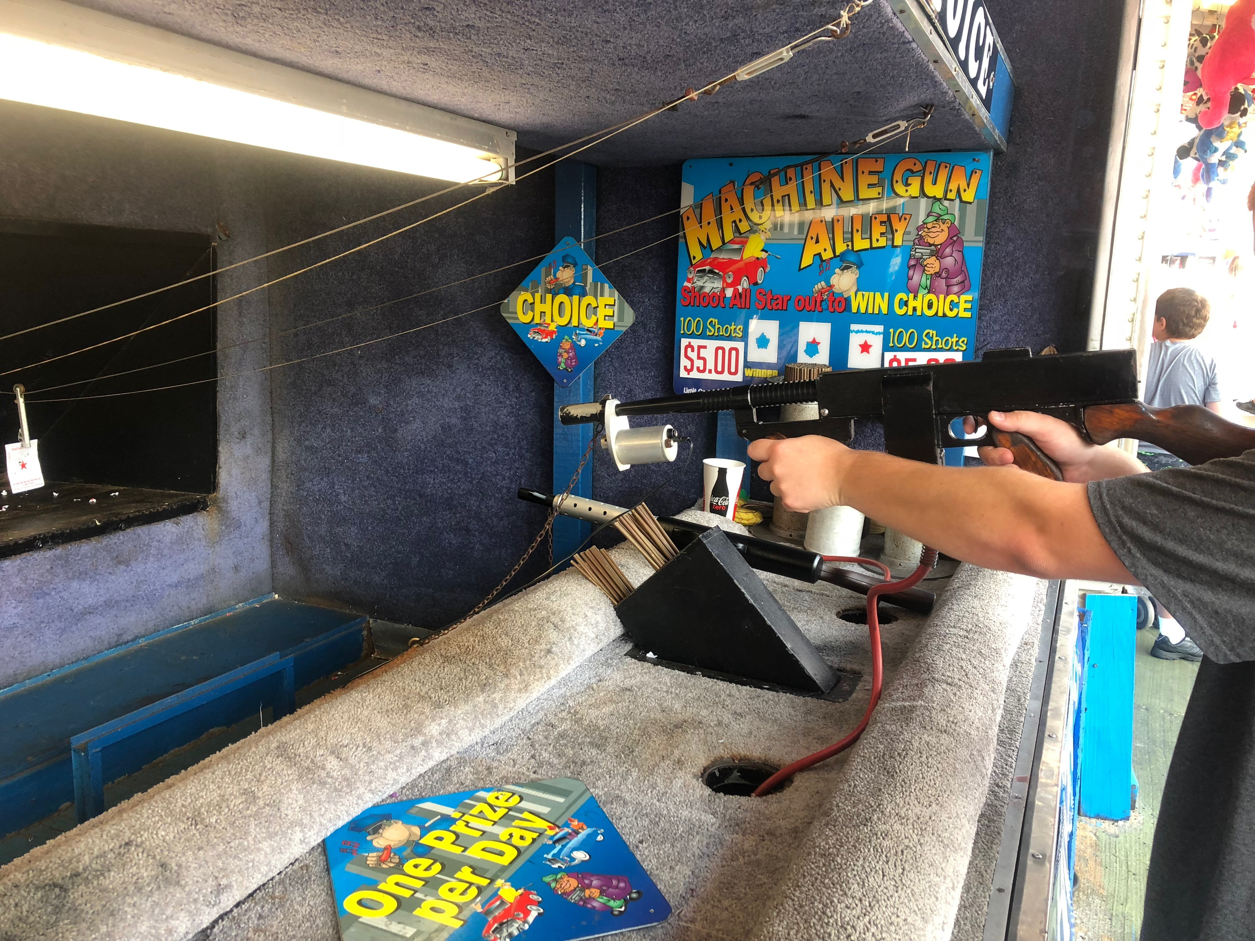 The Shooting Star game being played at Steel Pier in Atlantic City